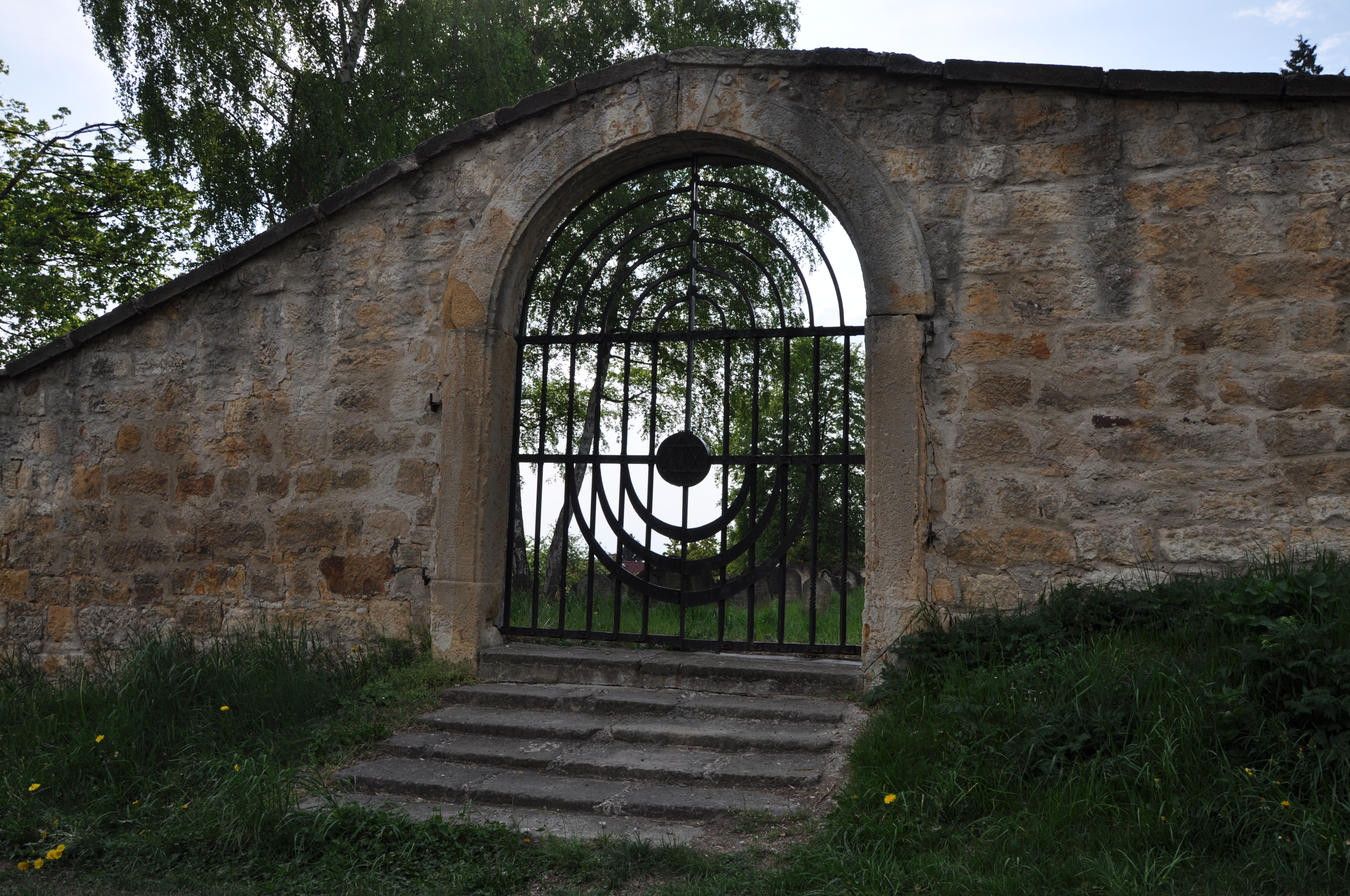 Gate of jewish cemetery ornated with menorah